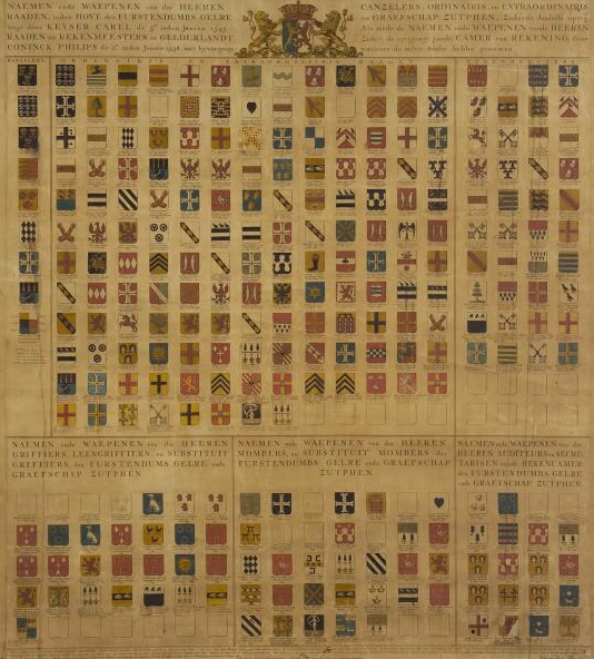 Gelre en Zutfen - 16th century, COA map of families wich members in the 16th century were members of the court of Gelderland